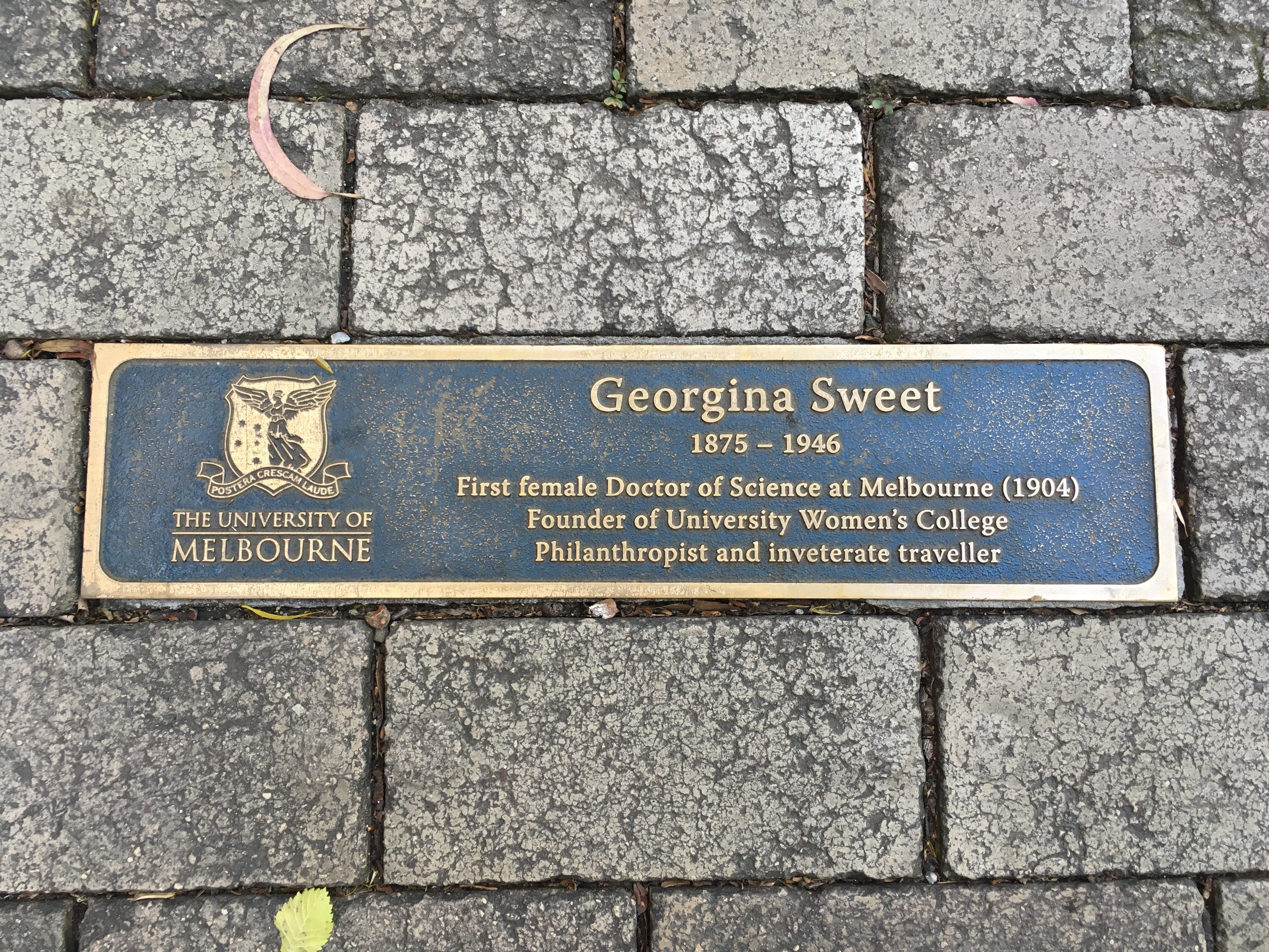 Georgina Sweet, University of Melbourne Award, Bronze Plaque installed in Professors Walk on the Parkville campus